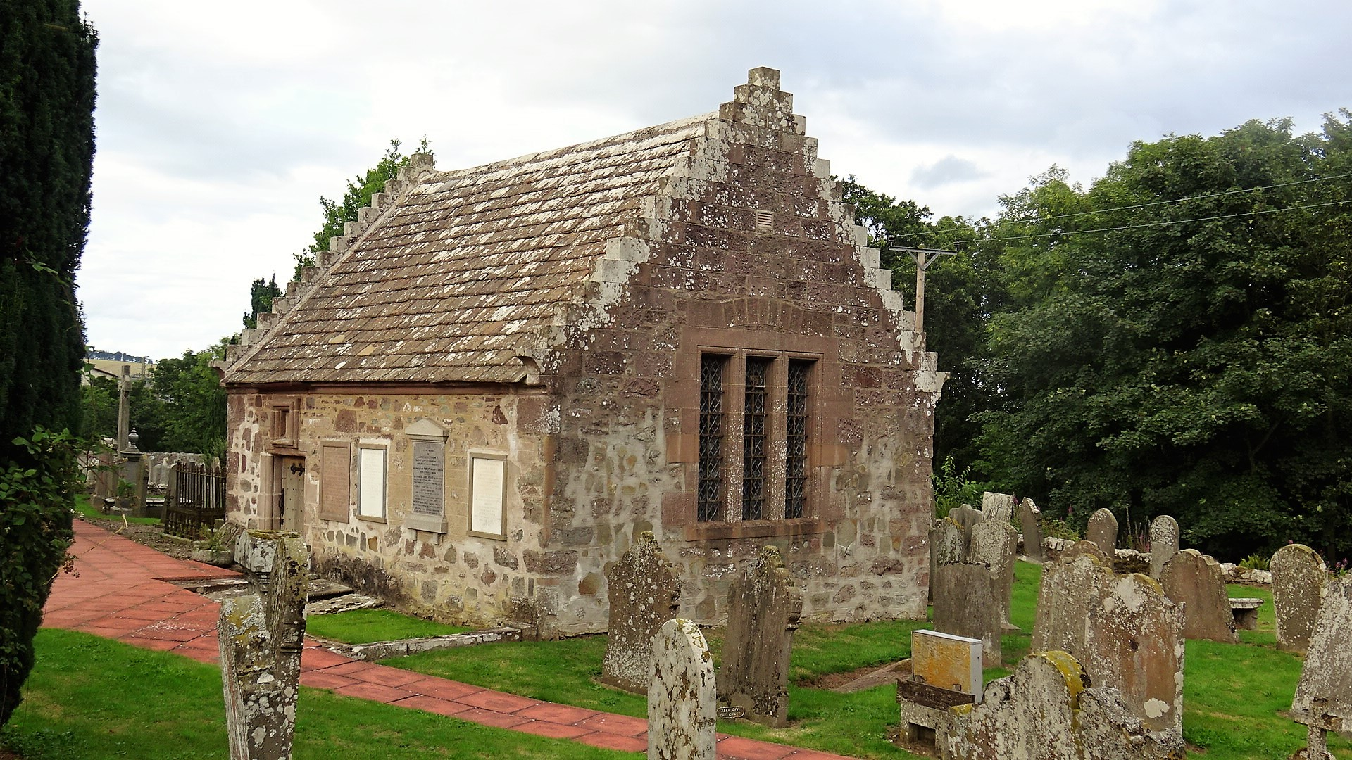 The Marischal Aisle, Dunnottar Church, Stonehaven, Aberdeenshire. Built in 1582 by George Keith, 5th Earl Marischal of Scotland and founder of Marischal College, Aberdeen.